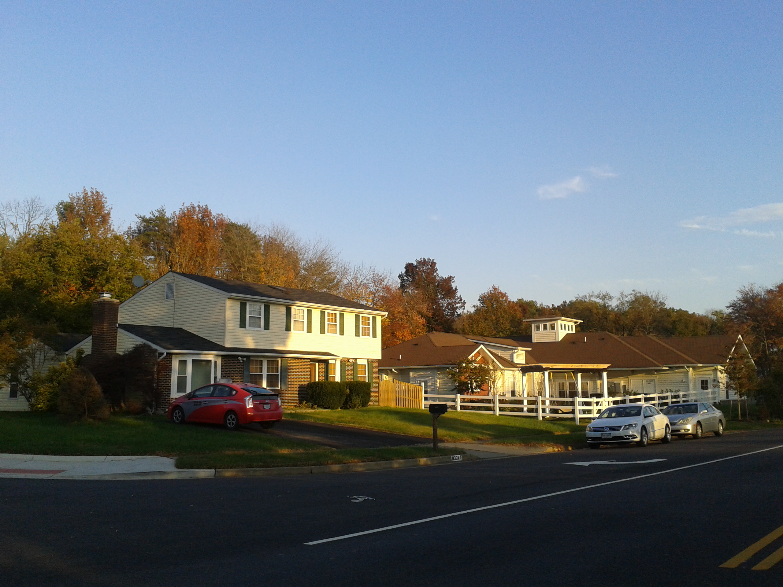 Wakefield, in Fairfax County Taken by me in October, 2016